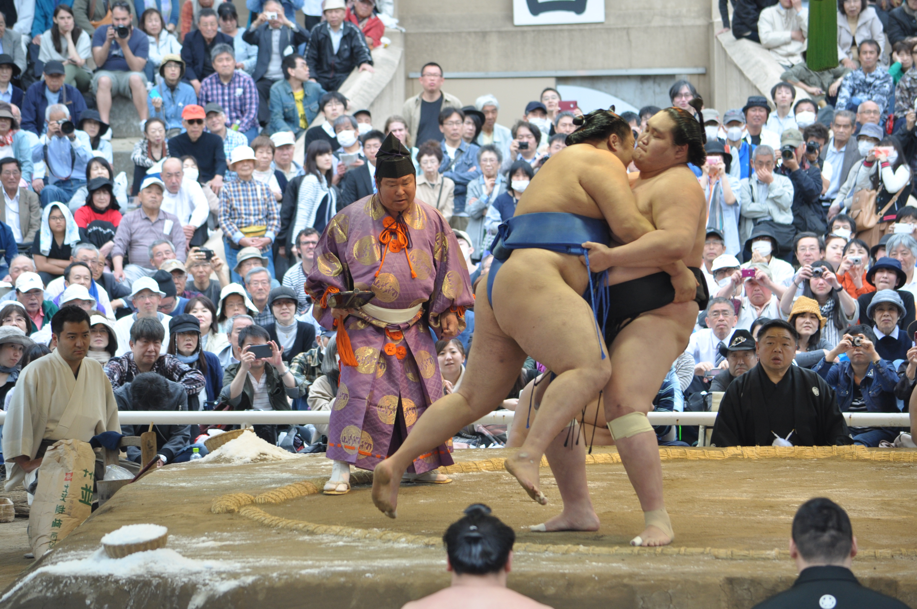 Terunofuji Haruo (right) lifts Tamawashi Ichirō